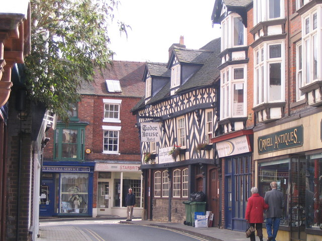 Tudor House Hotel, Market Drayton, England